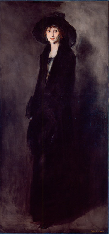 Lady in Black Velvet (Portrait of Eulabee Dix Becker) by Robert Henri, 1911, High Museum of Art